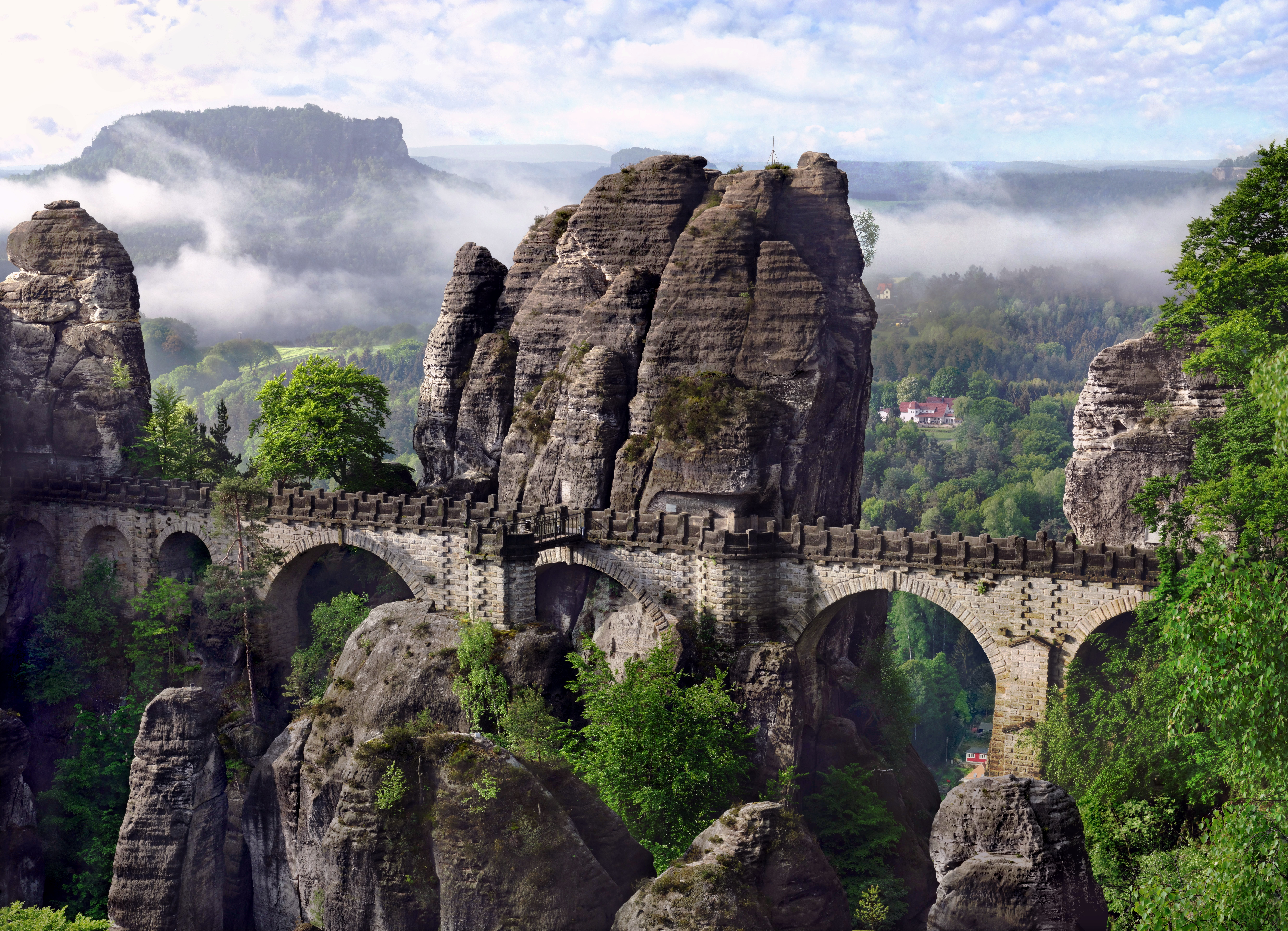 The picture shows the Bastei Bridge morning in the mist. This bridge is 76.5 meters long and crosses the Martertelle. It creates a link between the Neurathen Castle and the Bastei at an altitude of 165 meters above the river Elbe. It was built in the years 1850/51 and has become the symbol of the Saxon Switzerland.